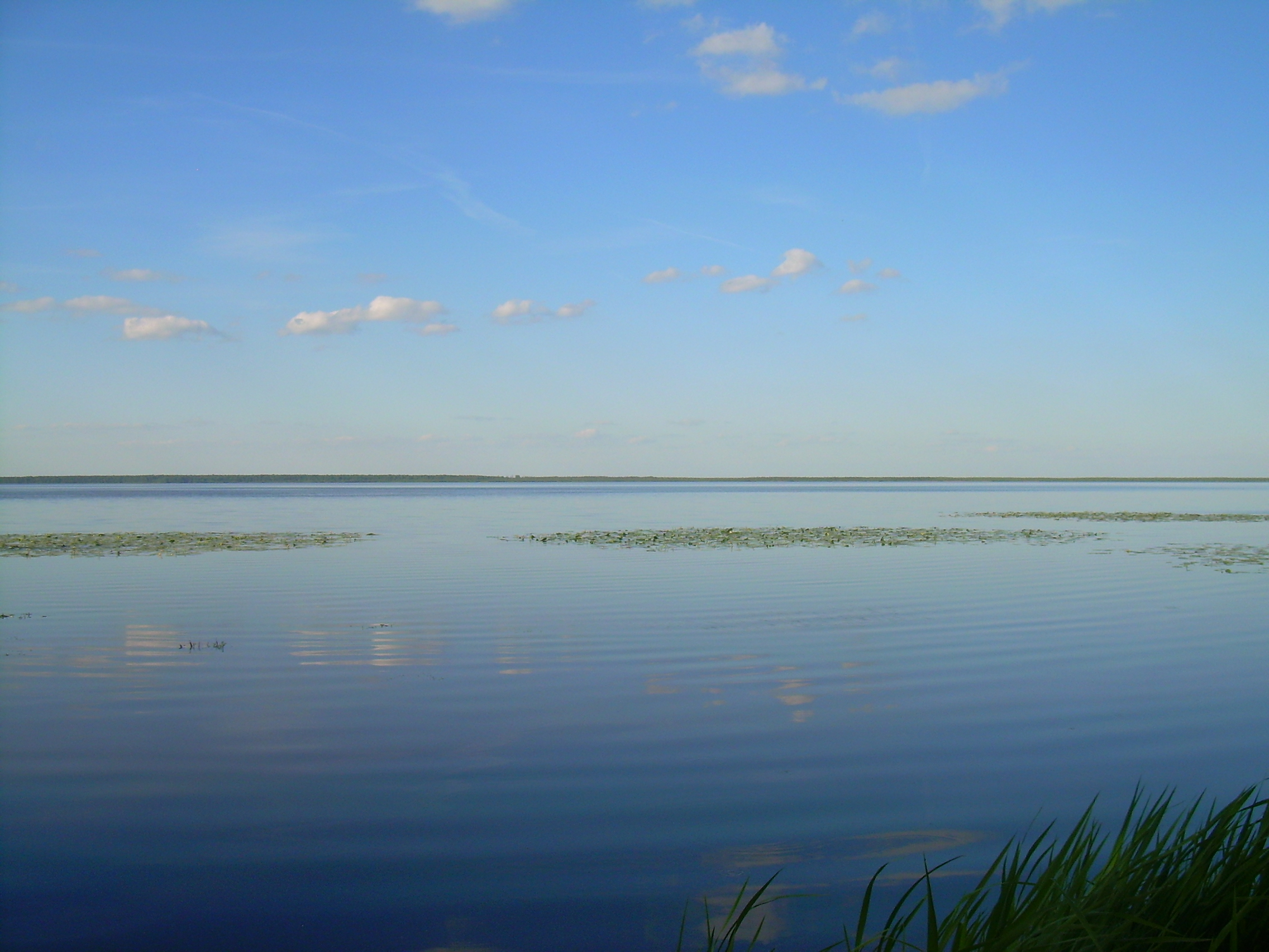 Vyhanaščanskaje Lake, Ivacevičy district, Belarus